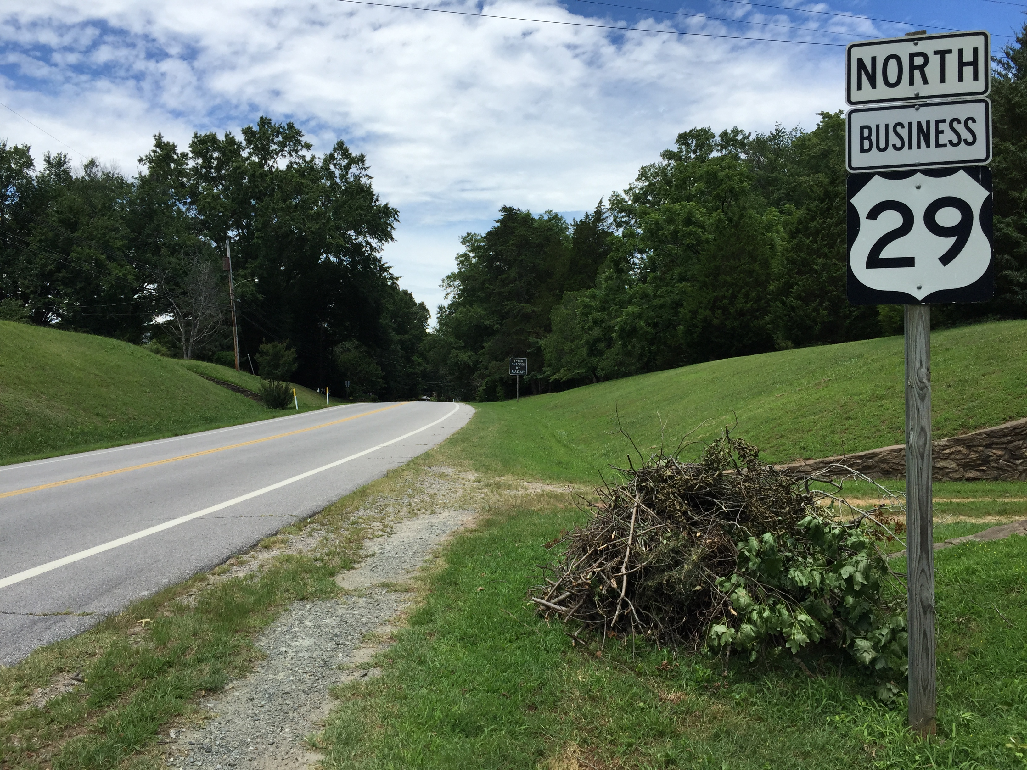 View north along U.S. Route 29 Business (Main Street) at Minor Road (Virginia State Secondary Route 1427) in Chatham, Pittsylvania County, Virginia